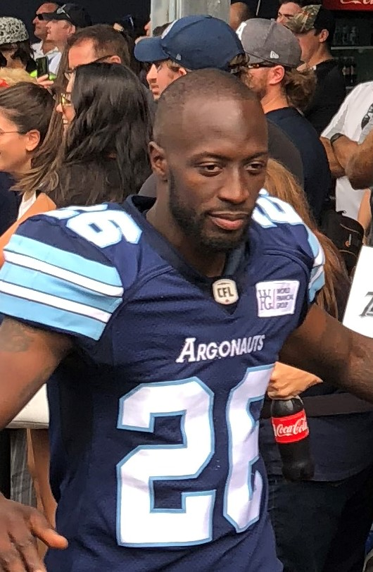 Cassius Vaughn, defensive back for the Toronto Argonauts.